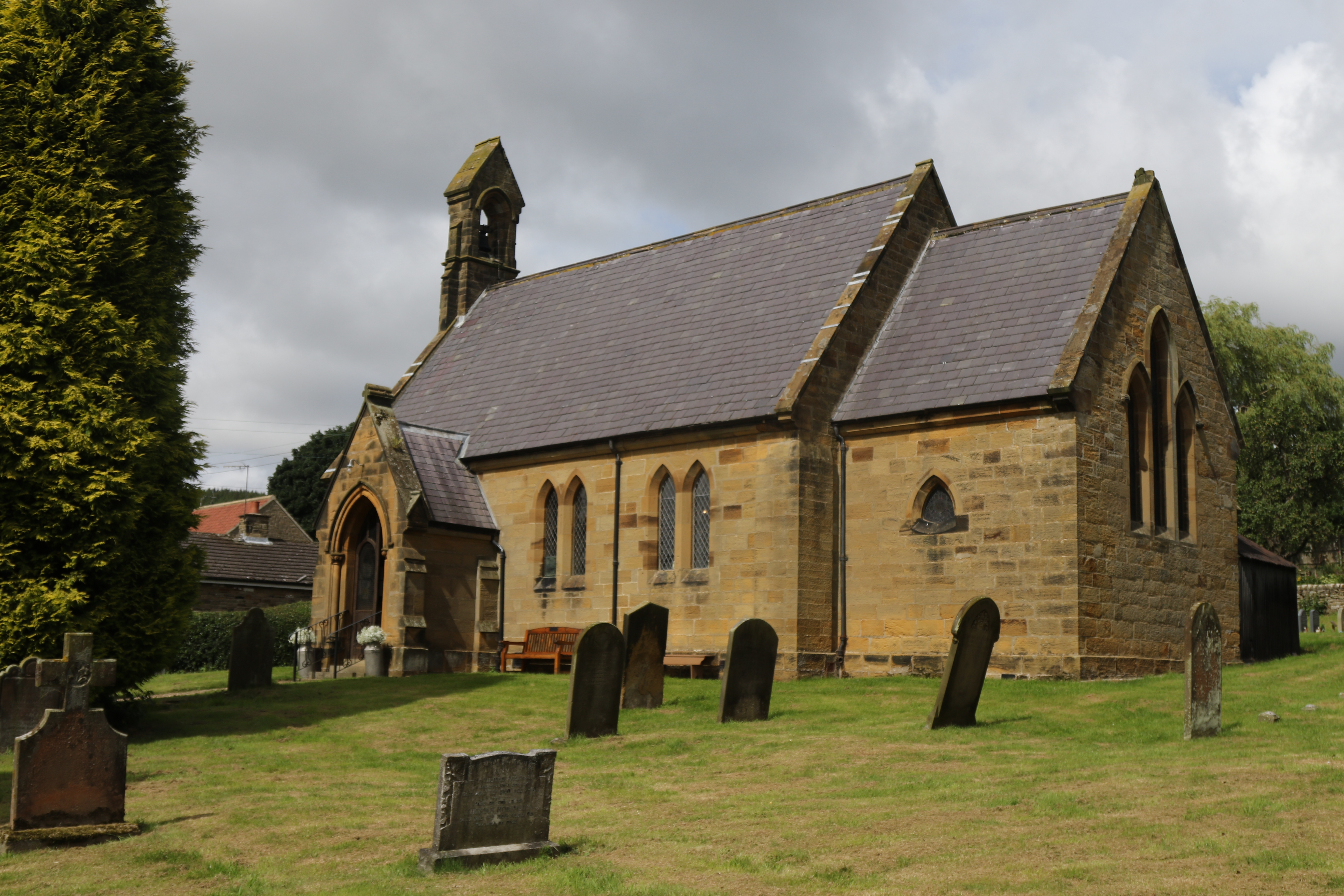 View from the south east of the churchyard